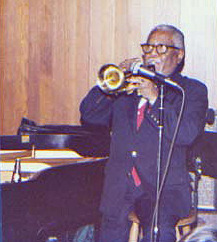 Jazz trumpeter Roy Eldridge at the Village Jazz Lounge in Walt Disney World